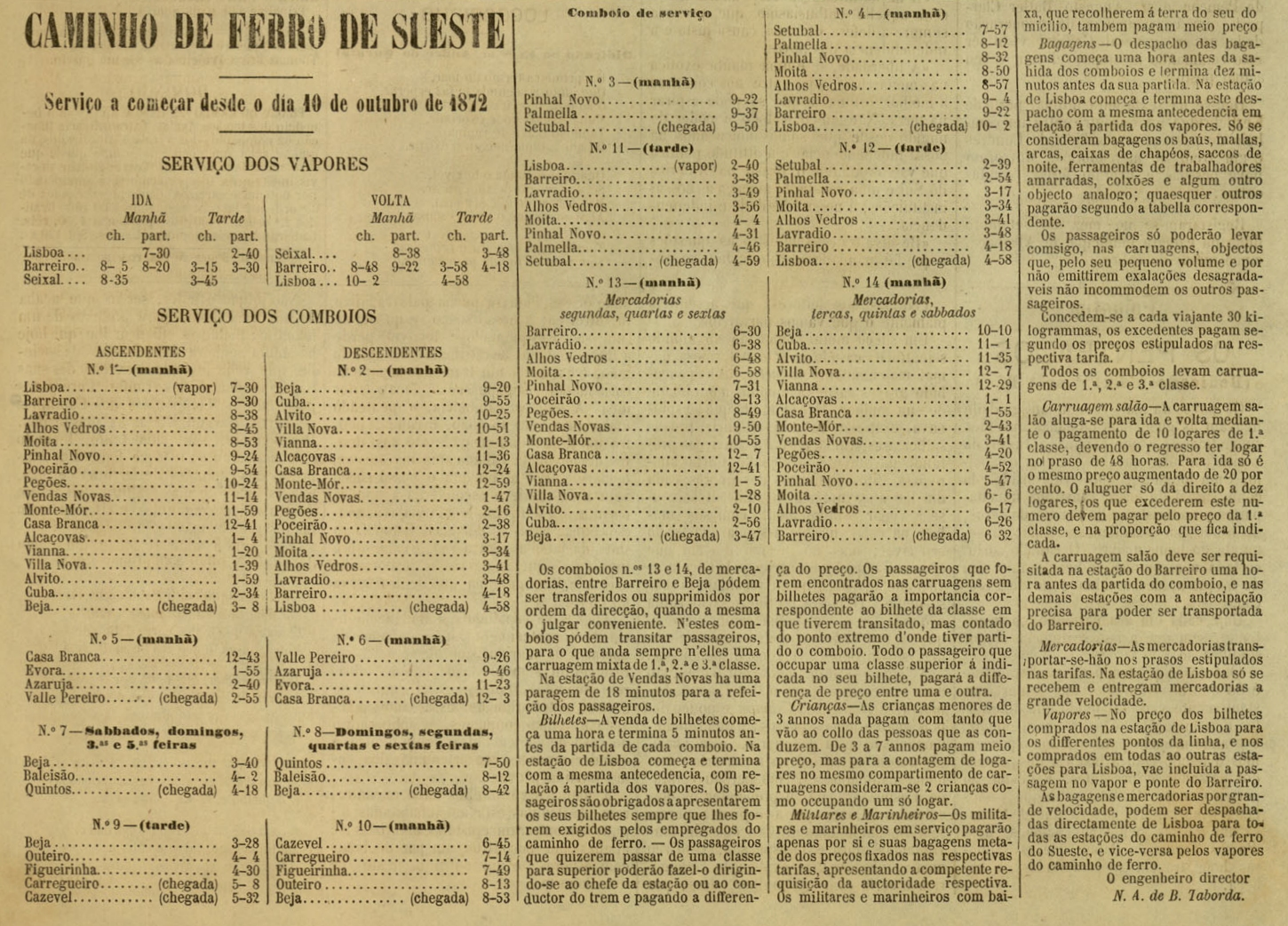 Timetable of the Caminho de Ferro do Sueste (South Eastern Railway), that managed the trains from the Alentejo region to the South bank of the Tagus River, and steam ferrys from the South bank to Lisbon, in Portugal. This image was published on the Diario Illustrado newspaper No. 103, of 11th October 1872, and scanned by the Biblioteca Nacional de Portugal.